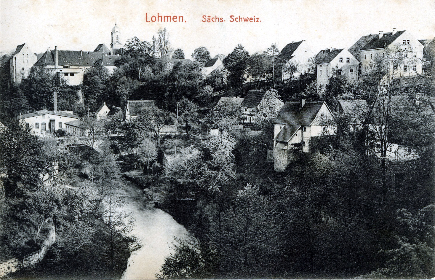 This postcard is from publisher Brück & Sohn in Meißen ( This postcard has a unique number 08766 and is available in a higher resolution at the publisher. This images was uploaded in a cooperation project between Wikipedians and the publisher.